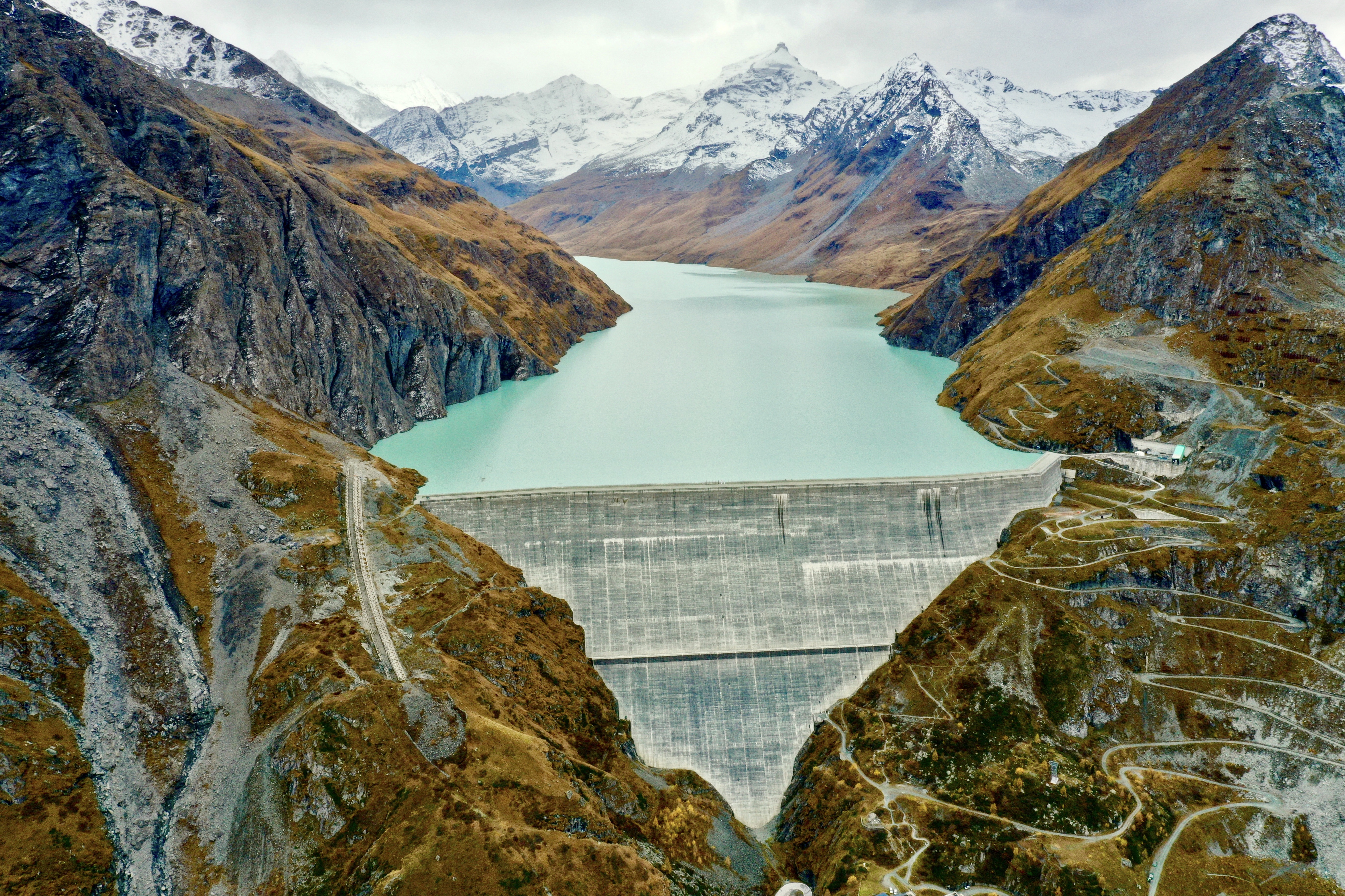 Le Barrage de la Grande-Dixence, en Valais, en Suisse.